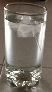 Glass of water with ice cubes